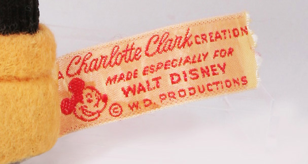 Rare embroidery label applied to handmade creations by Charlotte Clark between 1930-1939. The label consists of four lines of text, accompanied on the left by the face of Mickey Mouse "A Charlotte Clark creation Made especially for WALT DISNEY © W.D. Productions"